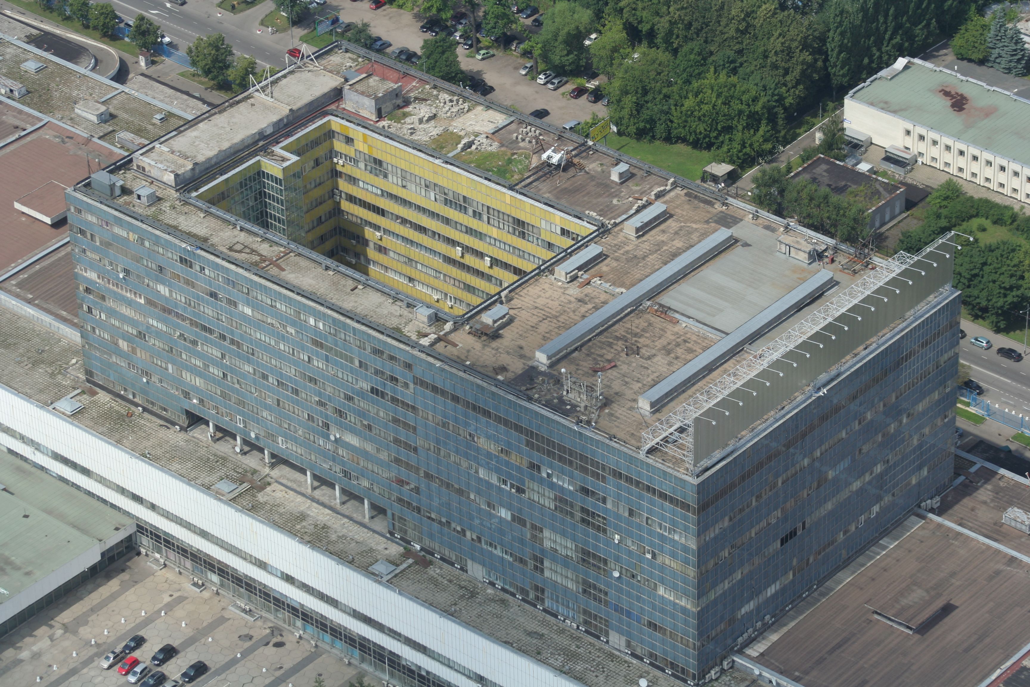 Views from the observation deck of the Ostankino Tower, Moscow